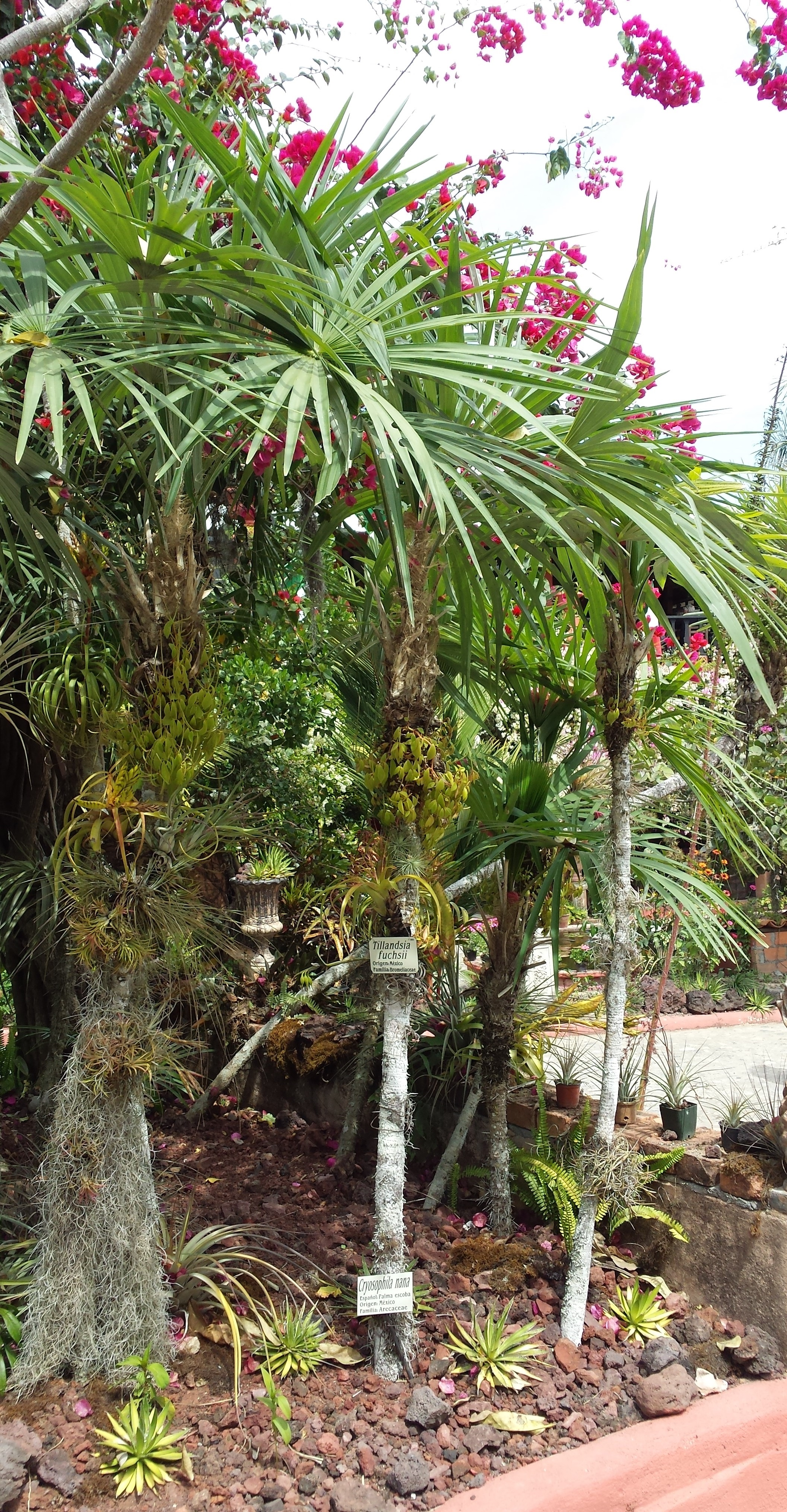 Crysophila nana at the Vallarta Botanical Garden with Tillandsias growing along the trunks